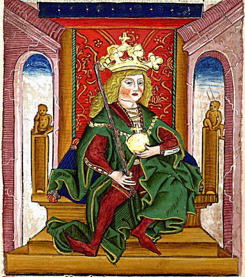 Stephen V of Hungary